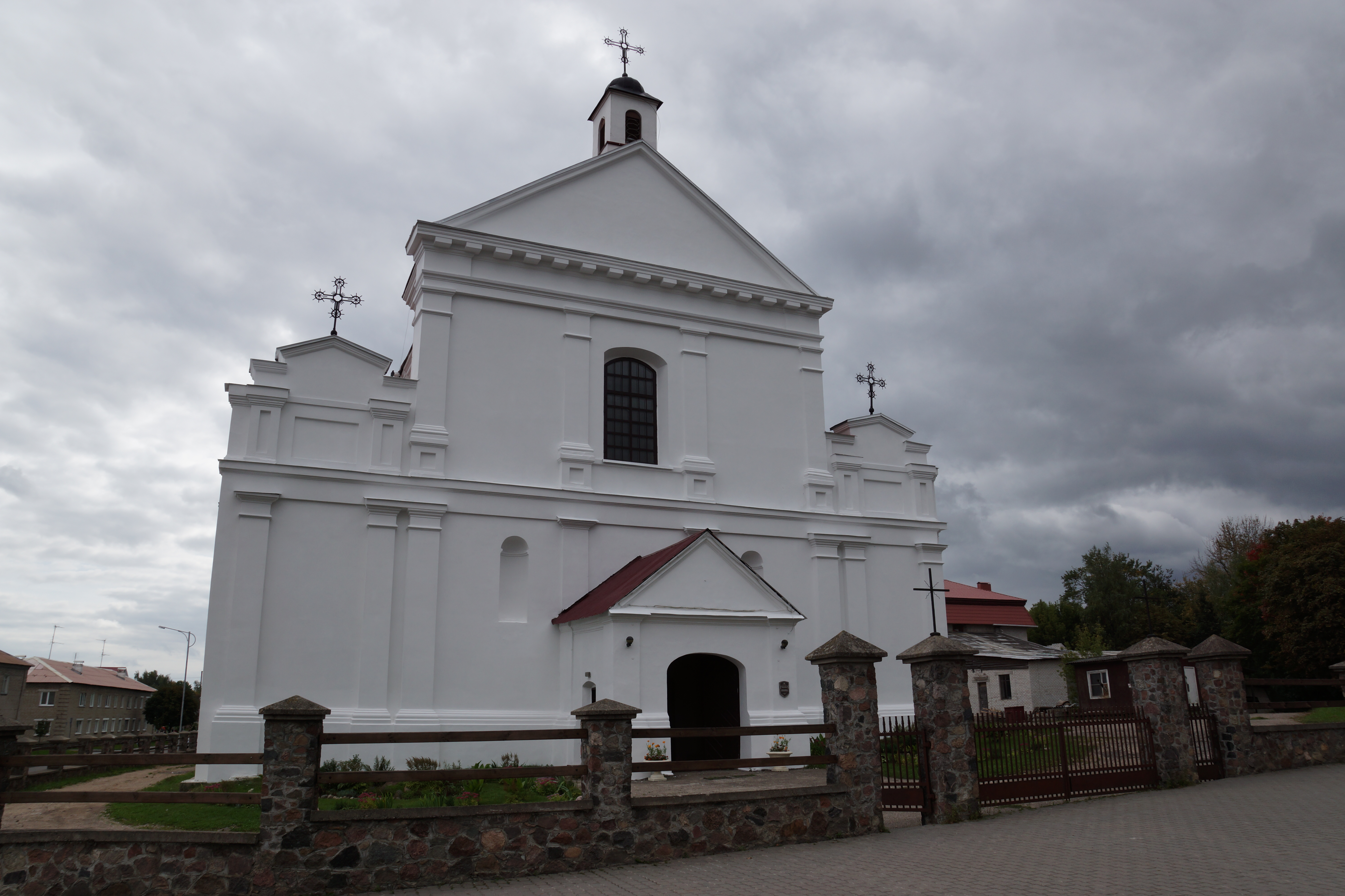 Catholic Church of Saint Michael Archangel, Navahrudak, Belarus